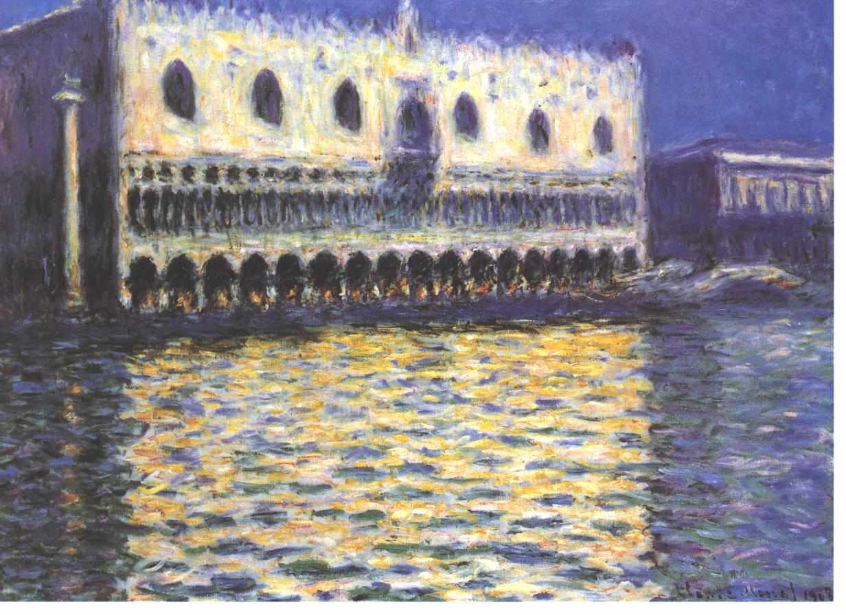 Depicted place: Doge's Palace